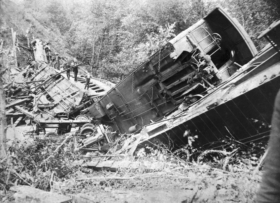 Train Wreck of Bostian Bridge, Iredell County, NC. Wreck occured August 27, 1891, near Statesville.